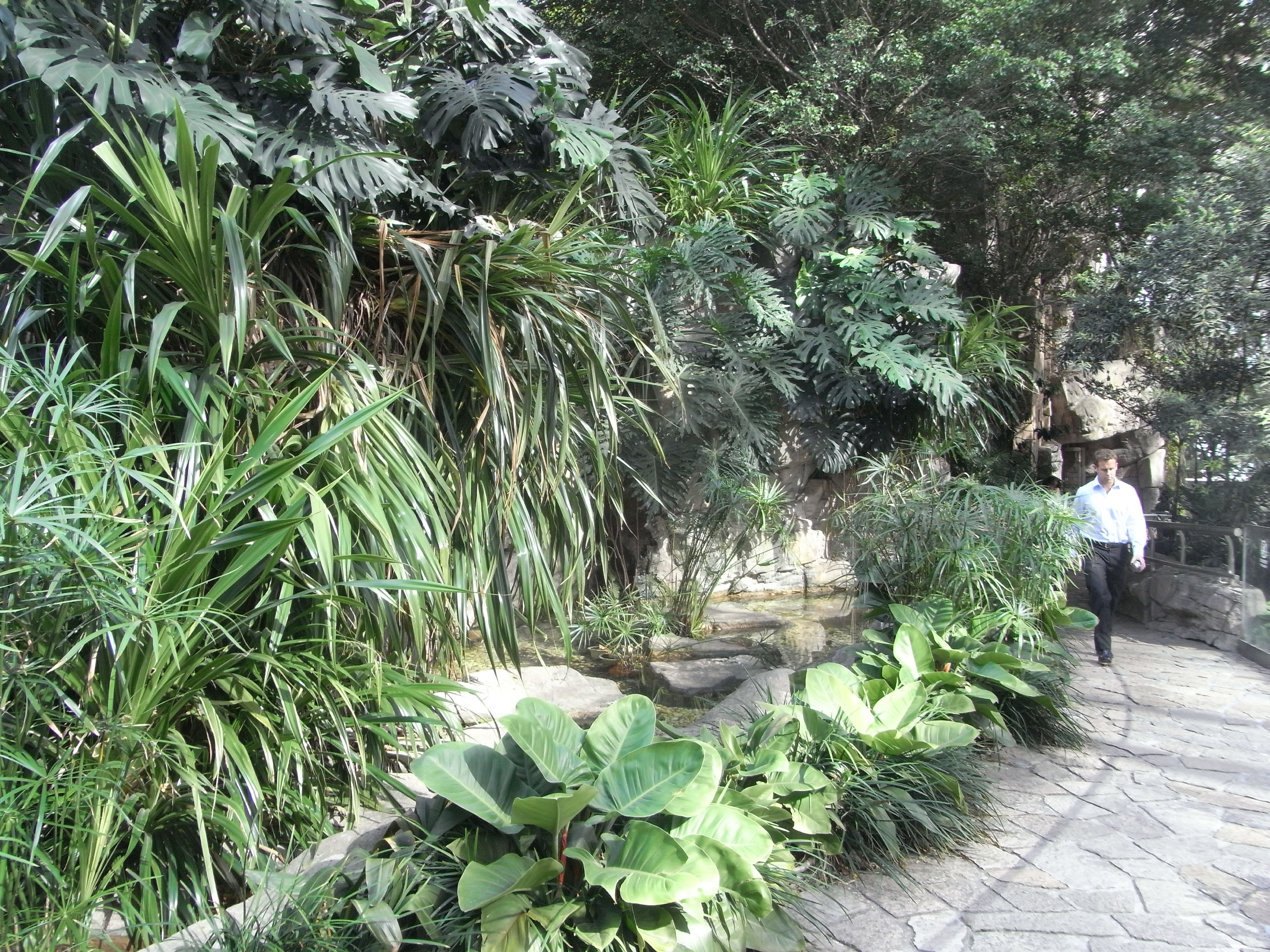 香港島 半山區